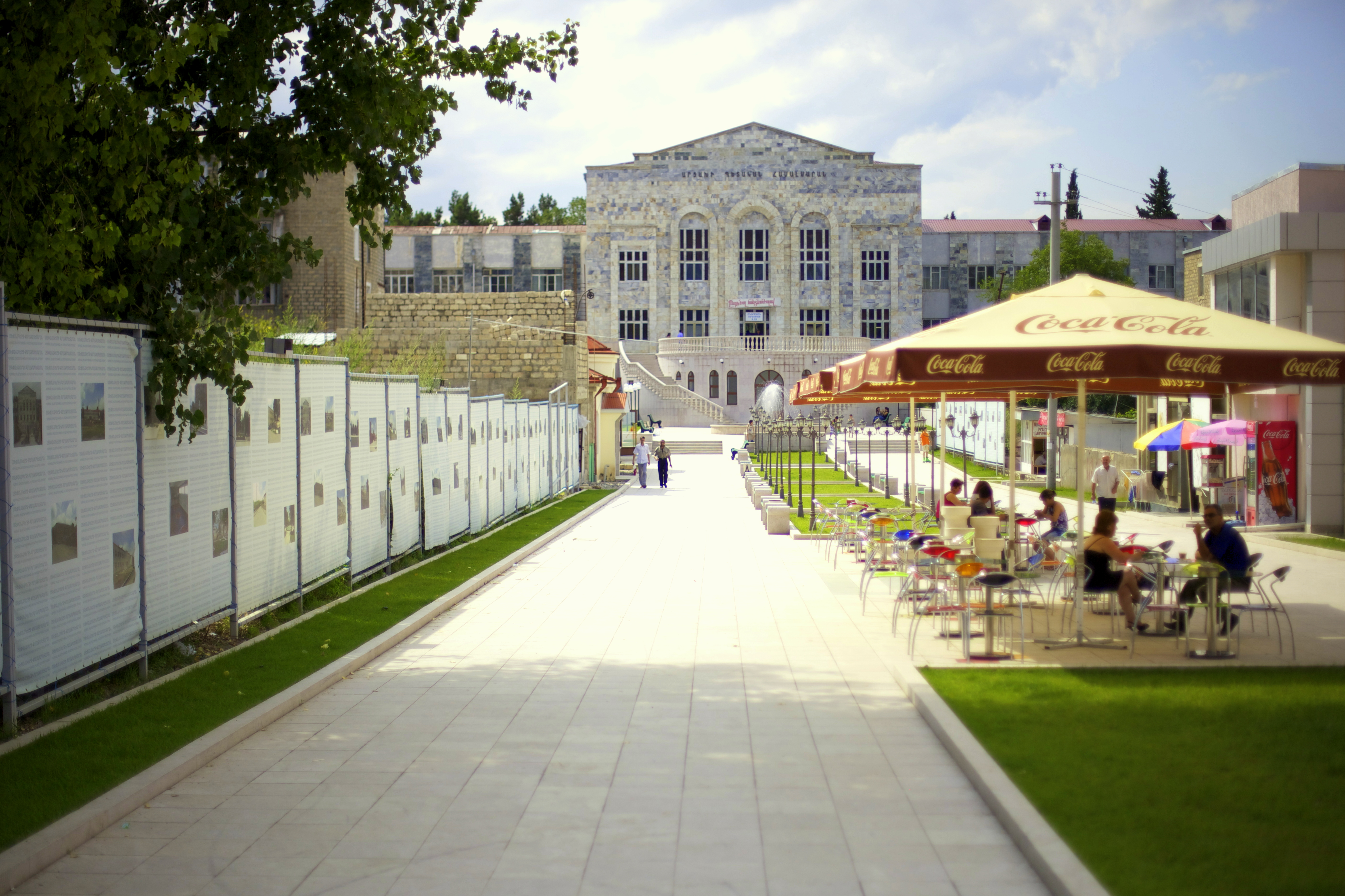 Stepenakert